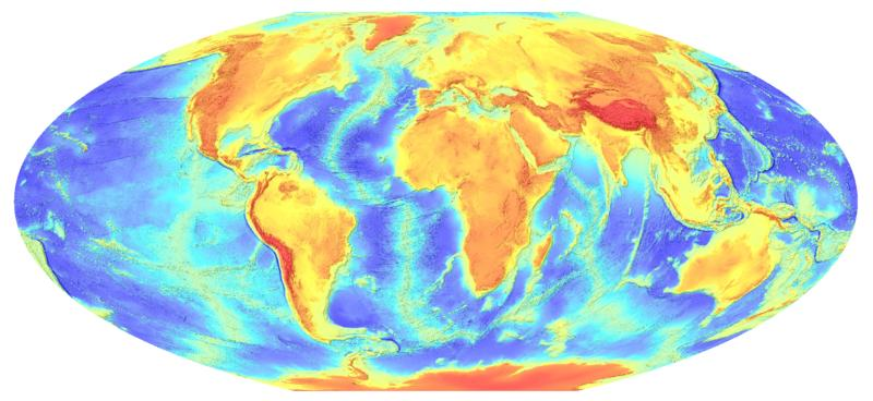 Elevation map of the entire Earth, as a flat polar quartic, with color-coding to indicate higher elevations as darker brown (JPEG version). The map is based on the ETOPO2 dataset, distributed by the USGS in the U.S.. PNG-format version: Image:Elevation flat polar quartic.png As a JPEG-format file, the image will auto-resize for transmission as a smaller (5-10x smaller) file than PNG-format. It is intended for use in frequently-read articles (such as "en:1803"), to avoid delays from PNG files (up to 30 seconds slower per image).